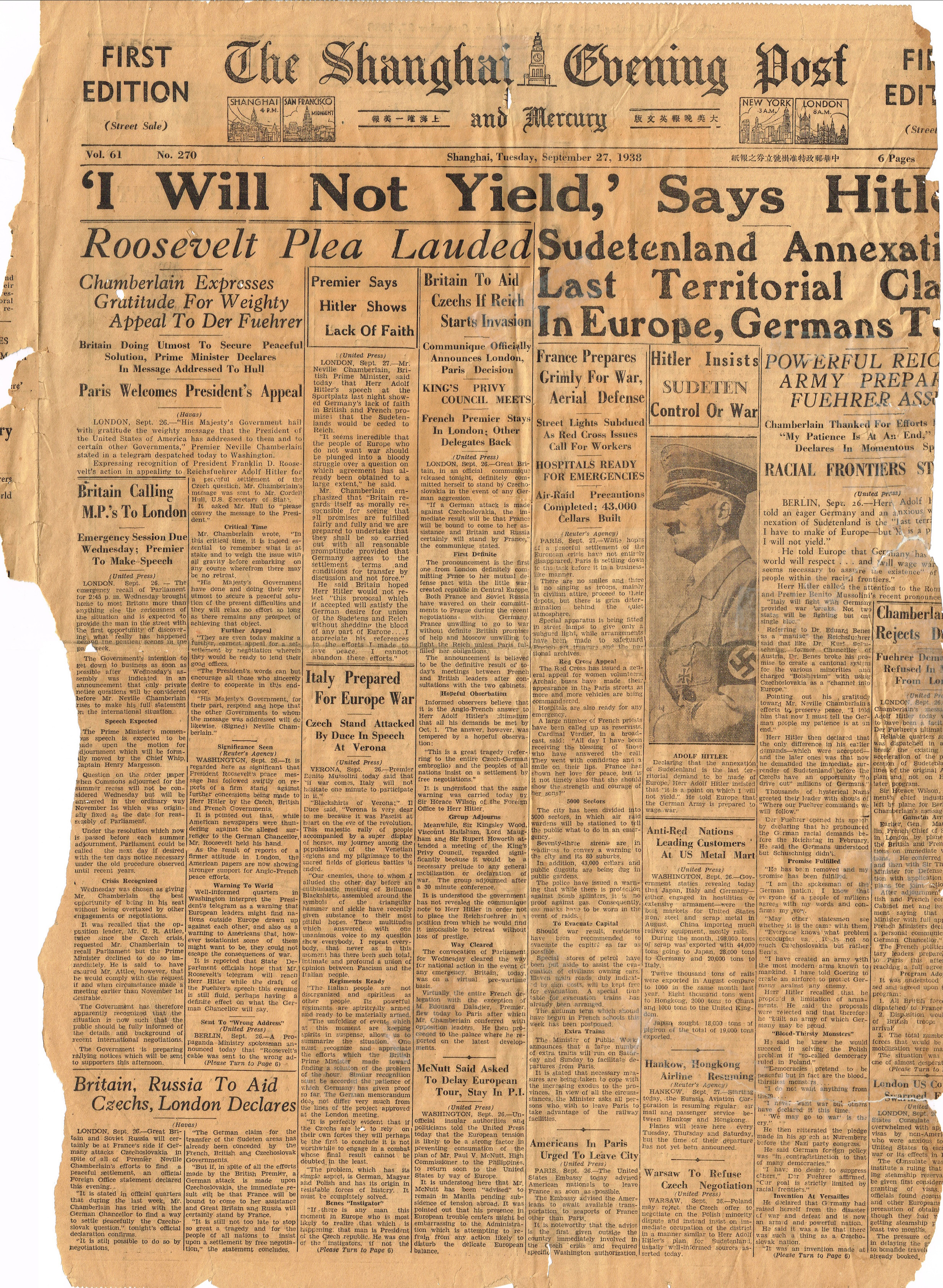 Front page of from the Shanghai Evening Post and Mercury newspaper, September 27, 1938. The content is dominated by Hitler demanding the annexation of the Sudetenland and the responses by world leaders. The original was found on the back of an old painting owned by my family who lived in Shanhai during the 1930's and 1940's.